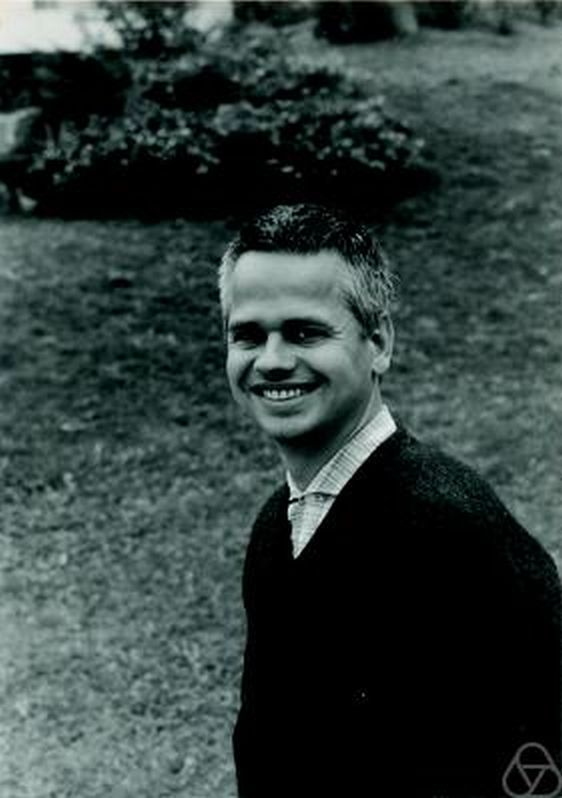 Theodor Bröcker, Oberwolfach 1972